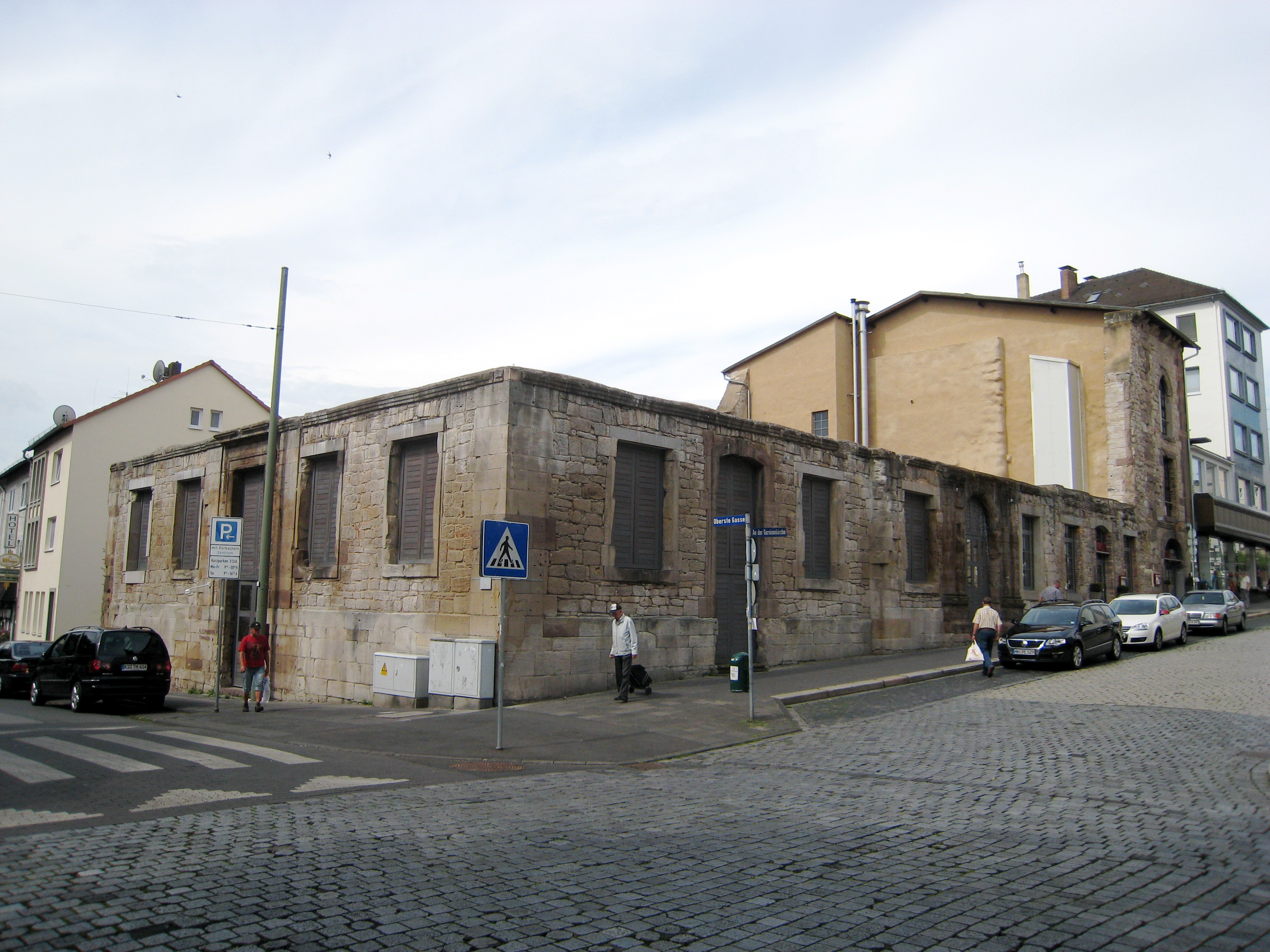 Former garnisonkirche (garrison church) near Königsplatz, baroque church which burned down in a 1943 bombing raid with several hundred people in it.